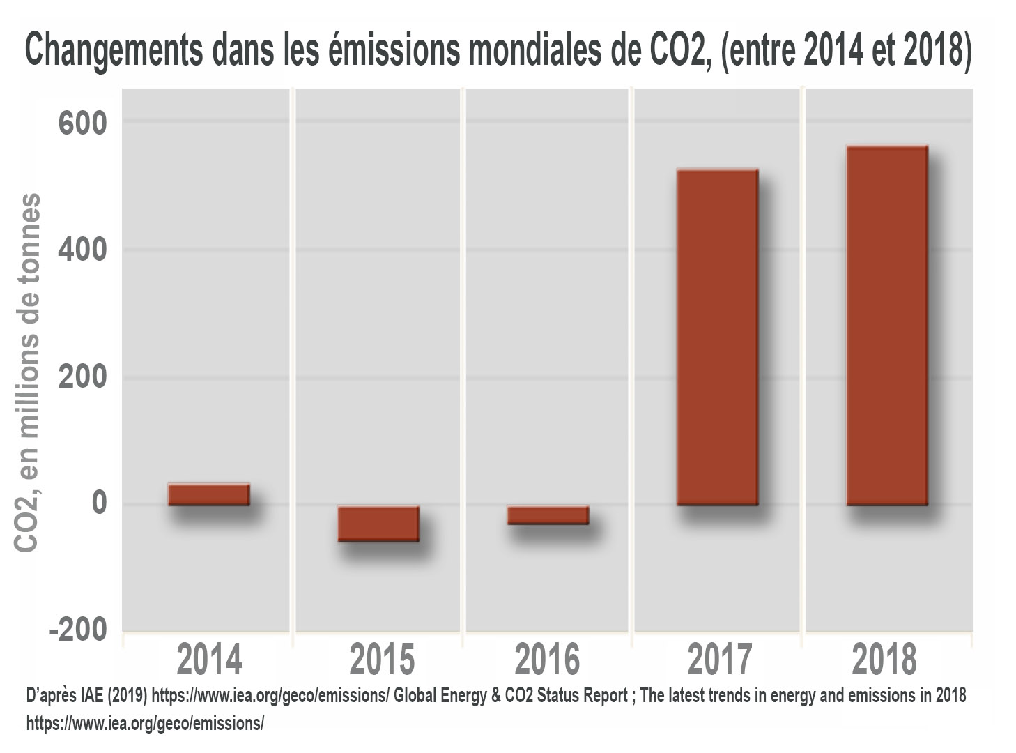 Changes in global anthropogenic CO2 emissions over 5 years, from 2014 to 2018, according to estimates by the International Energy Agency (March 2019)